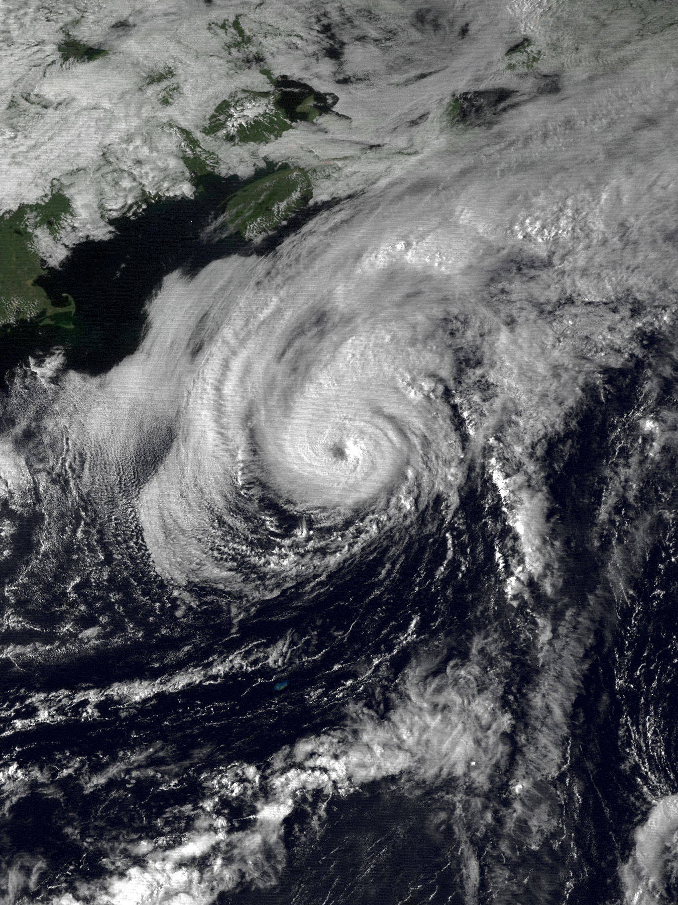 Hurricane Debby intensifying over the northern Atlantic Ocean on September 17, 1982